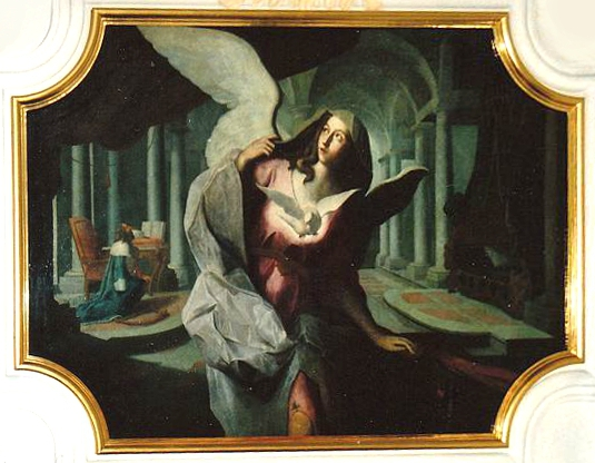 Church of the Holy Spirit in Munich - Seven Gifts of the Holy Spirit: Spirit of Holy Fear. Painter: Peter Horemans (1753)